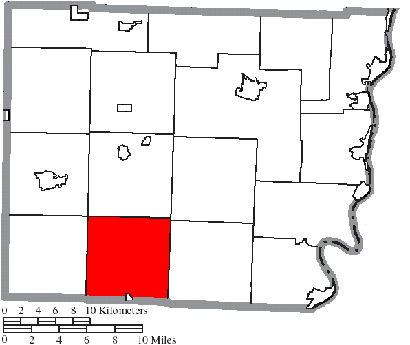 Map of the municipal and township boundaries of Belmont County, Ohio, United States, as of the 2000 census, with the location of Wayne Township highlighted. Township borders are shown only in unincorporated areas in order to differentiate incorporated and unincorporated areas more clearly.